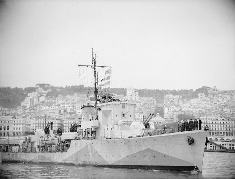 The Polish Navy during the Second World War The Polish Navy destroyer ORP Krakowiak leaving Algiers harbour for a patrol.